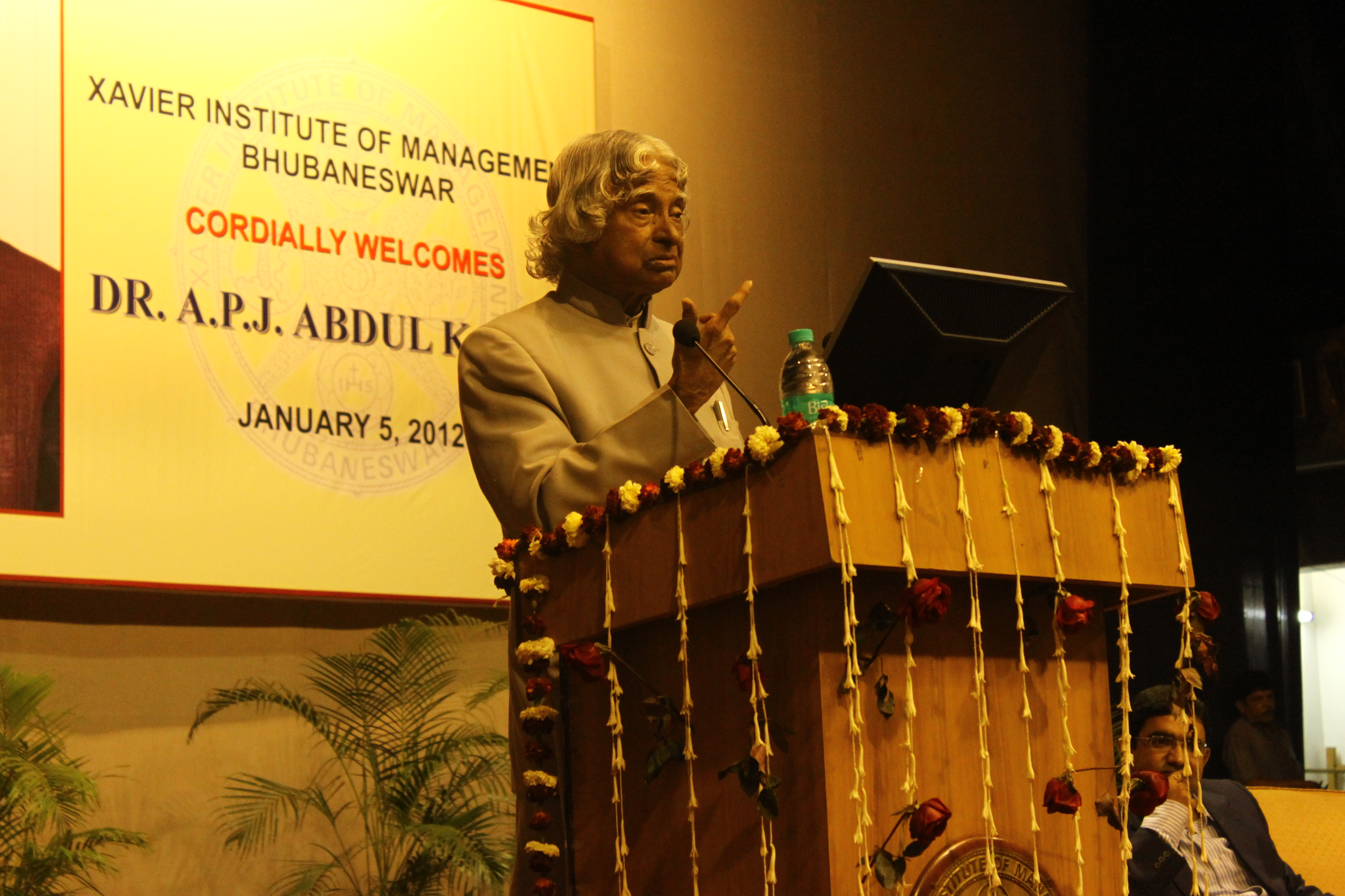 Bharat Ratna Dr. APJ Abdul Kalam taking oath from students of XIMB